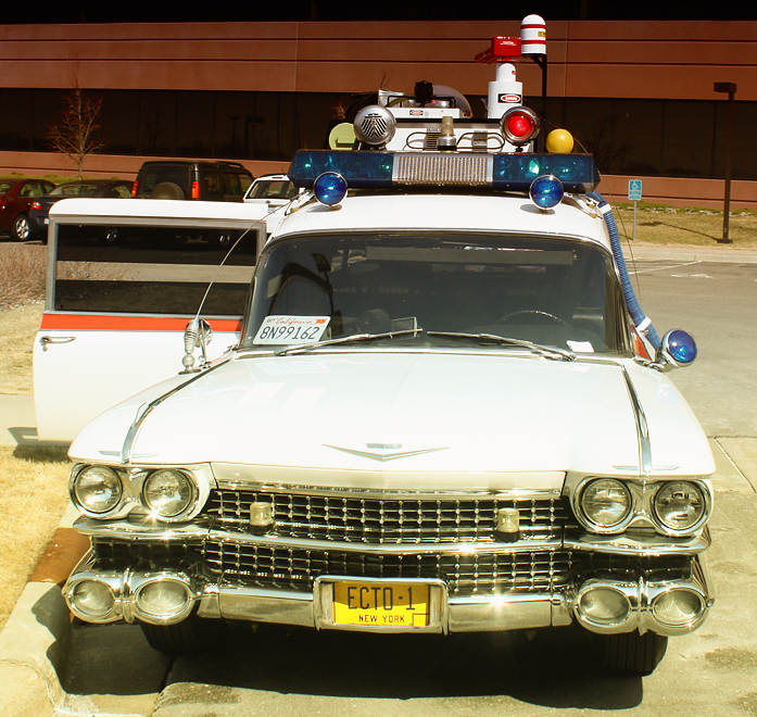 The Ghostbusters ectomobile emergency vehicle.Ghostbusters ECTO-1